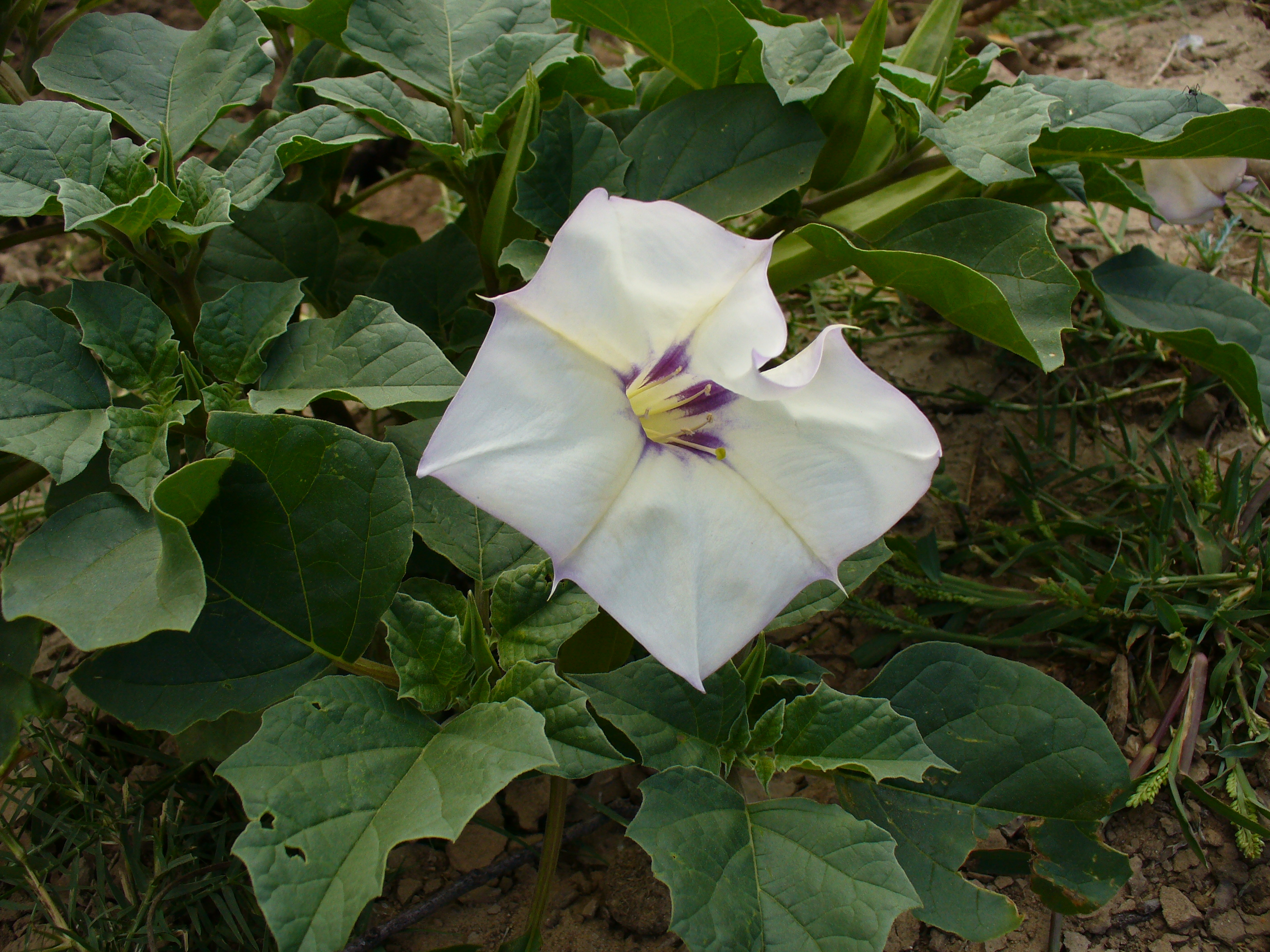 I am the originator of this photo. I hold the copyright. I release it to the public domain. This photo depicts a flower.